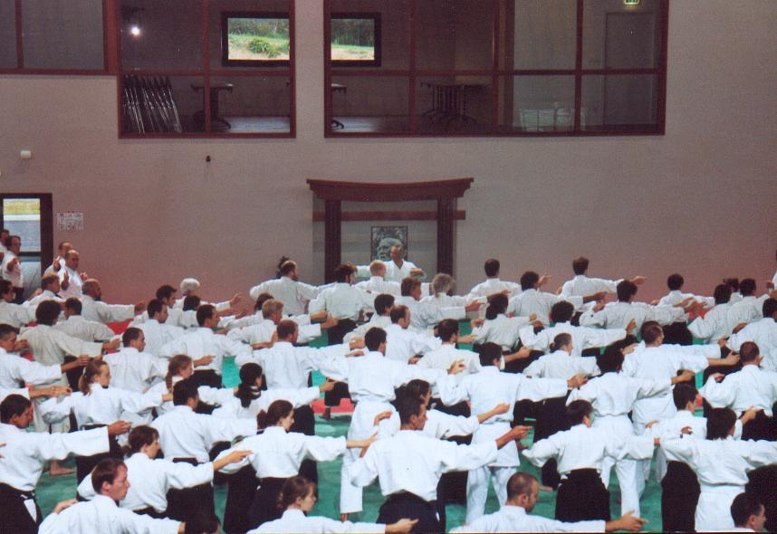 Breathing exercises at the beginning of an aikido lesson by Nobuyoshi Tamura, Lesneven aikido's international training